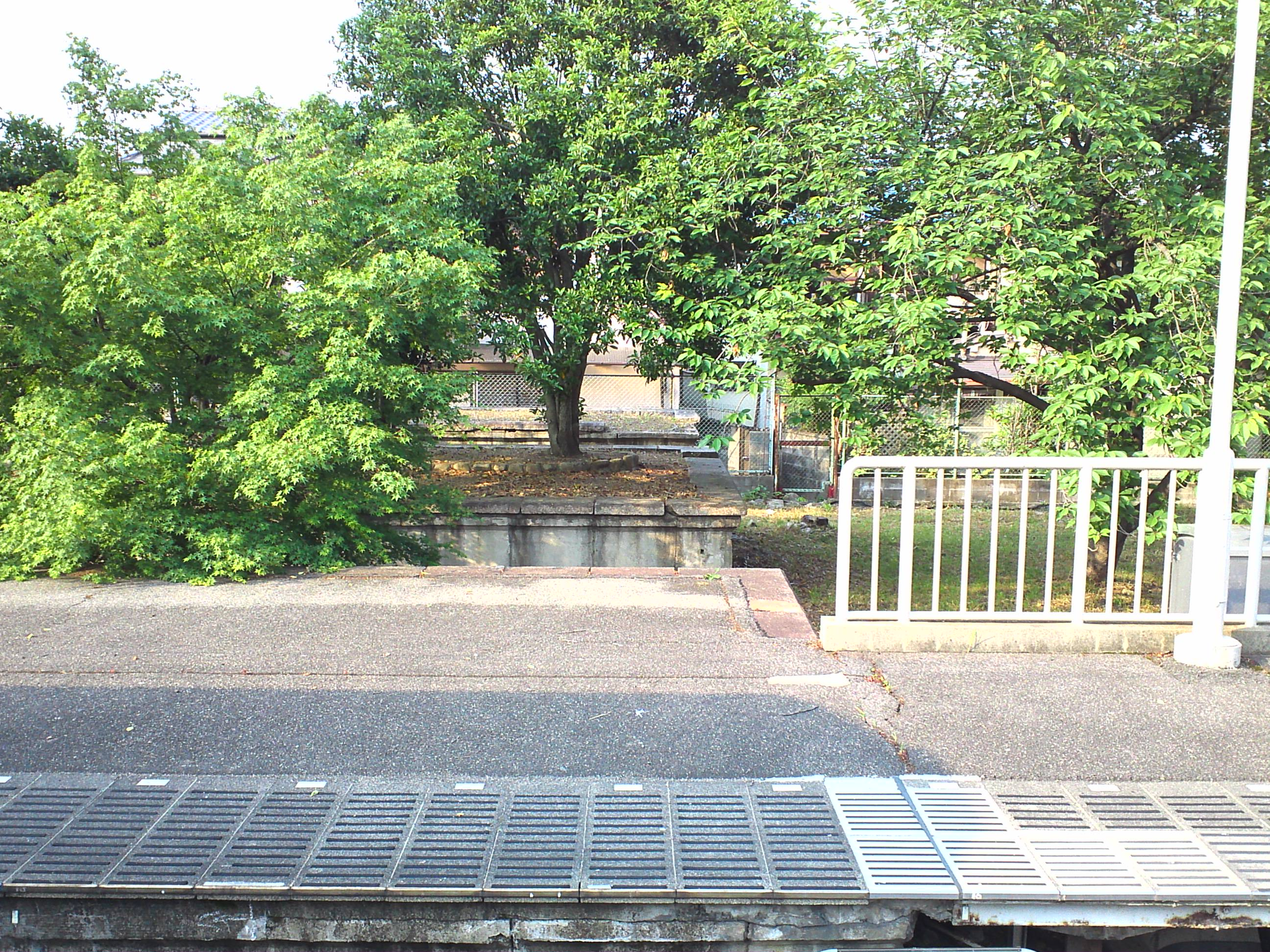 abolished platforms of Hankyu Arashiyama station (Kyoto, Japan)